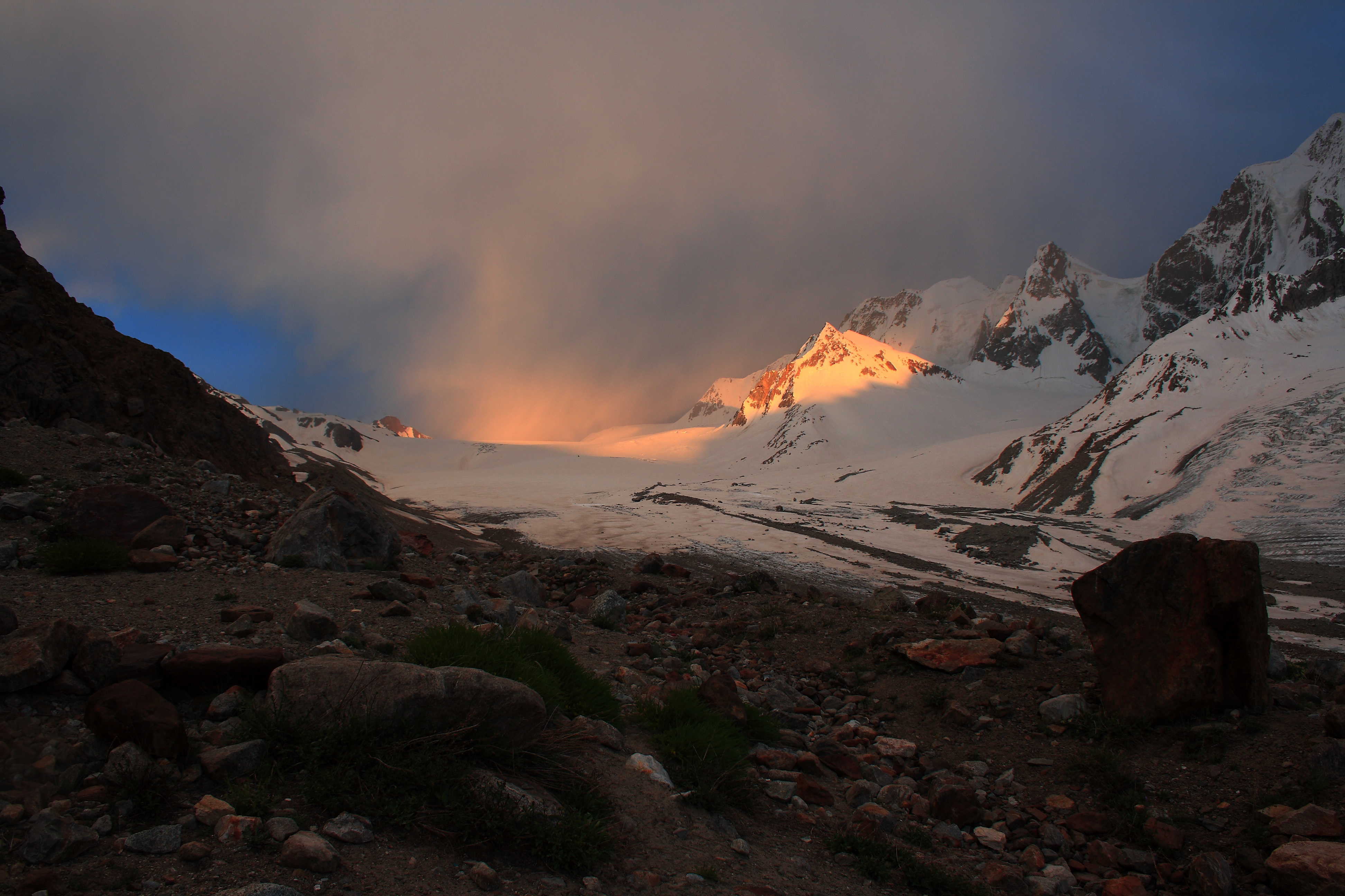 Darkot Pass, on the border of District Ghizer and District Chitral.